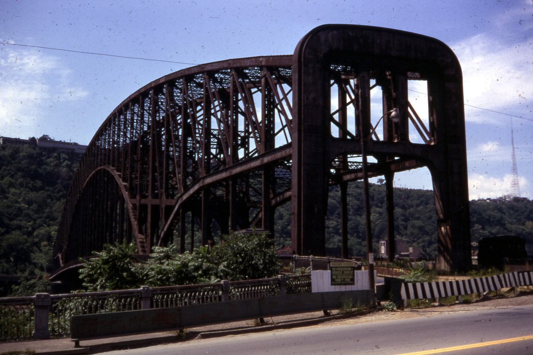 The northern portal of the closed to traffic Point Bridge over the Monongahela River in Pittsburgh, a 1968 photo. A cantilever iron truss bridge built in 1927. It was condemned in 1958, and had become derelict when demolished in 1970.